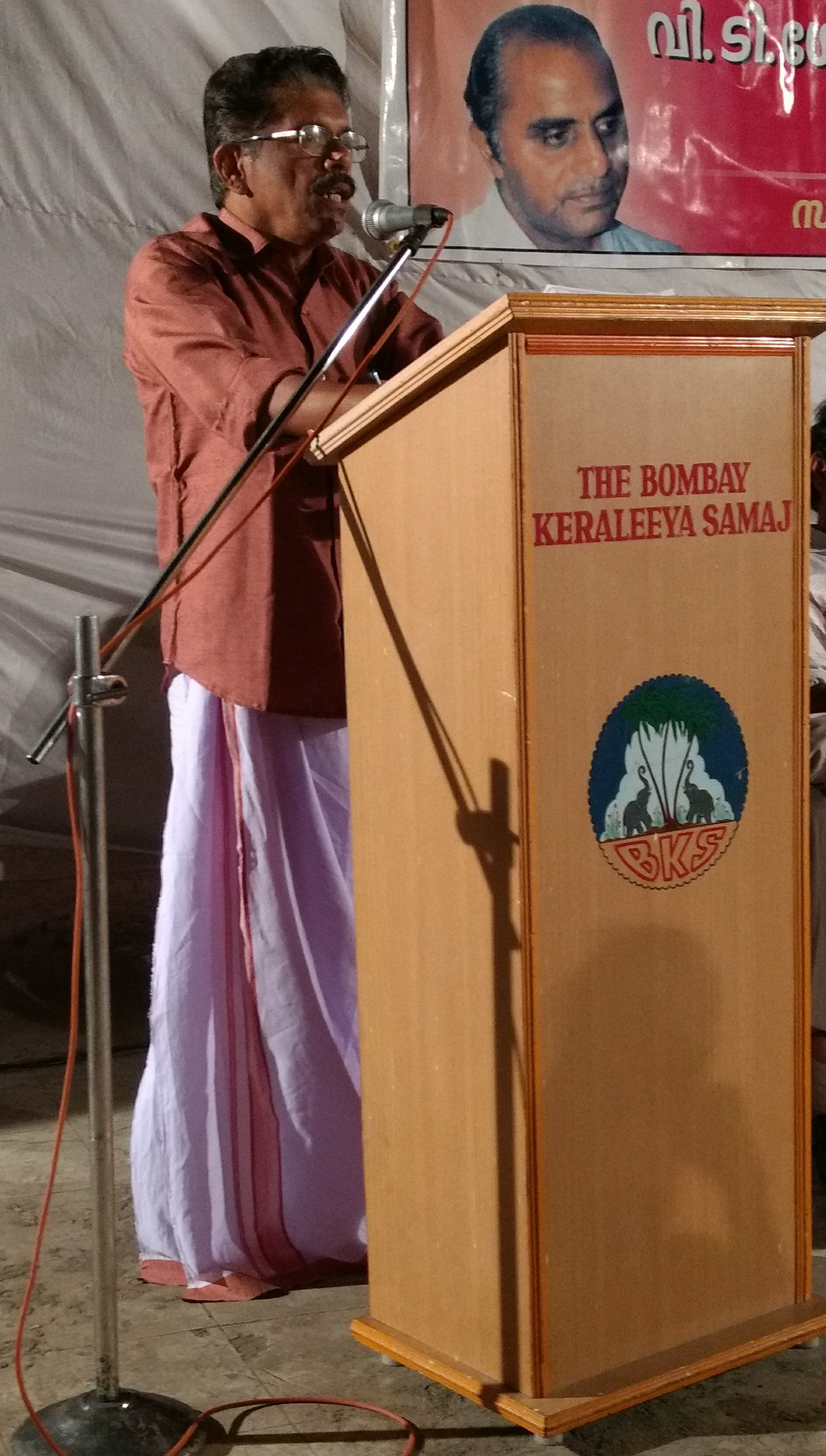 U. K. Kumaran at Bombay Keraliya Samaj, 2017